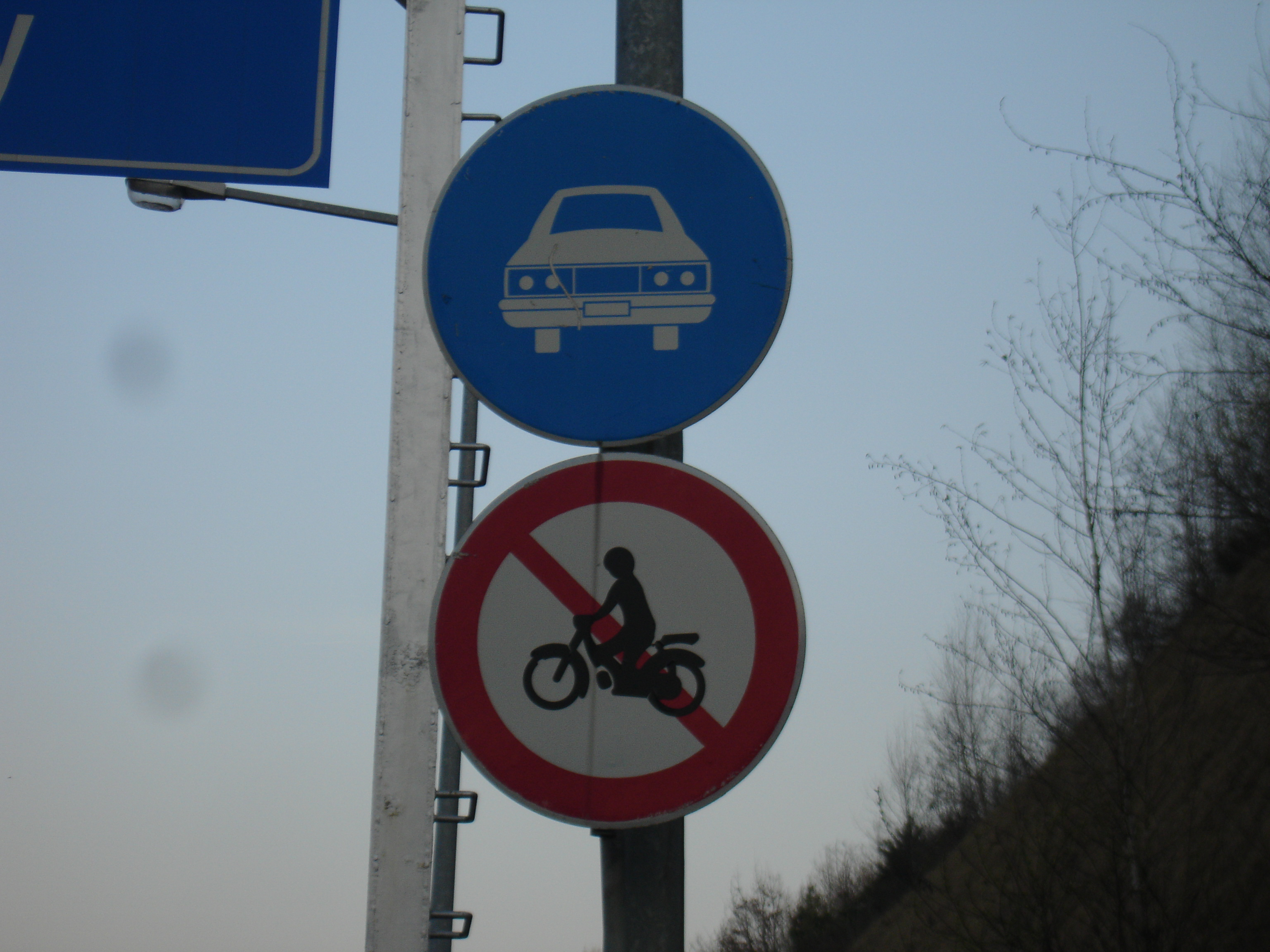 Korea Sign - Vehicles Only and No Thoroughfare for Motorcycles and Mopeds (old version)